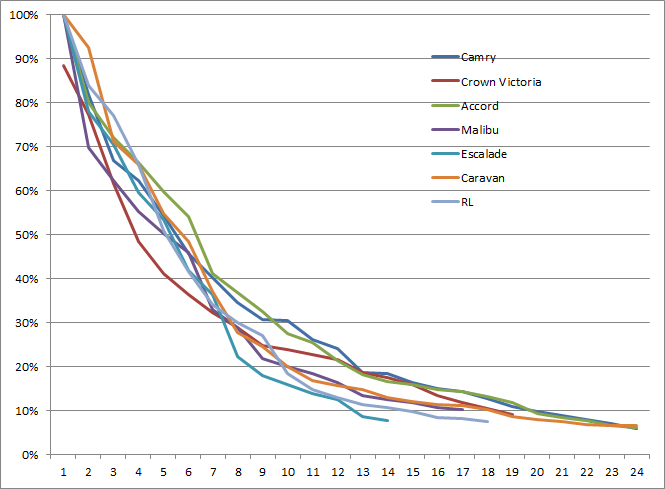 Car Depreciation for several models picked up from online retailer (Edmunds)